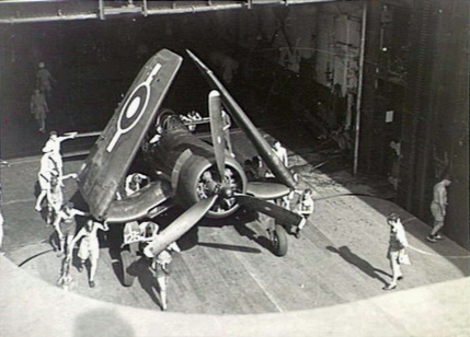 A Royal Navy Vought Corsair from 1831 Naval Air Squadron being wheeled on the elevator of the aircraft carrier HMS Glory (R62) at sea off Rabaul, New Britain, 6 September 1945. The Corsairs circled overhead during the surrender ceremony between Lieutenant General V.A.H. Sturdee, general officer commanding First Army, General H. Imamura, commander Japanese Eighth Area Army, and Vice Admiral J. Kusaka, commander Japanese South East Area Fleet.